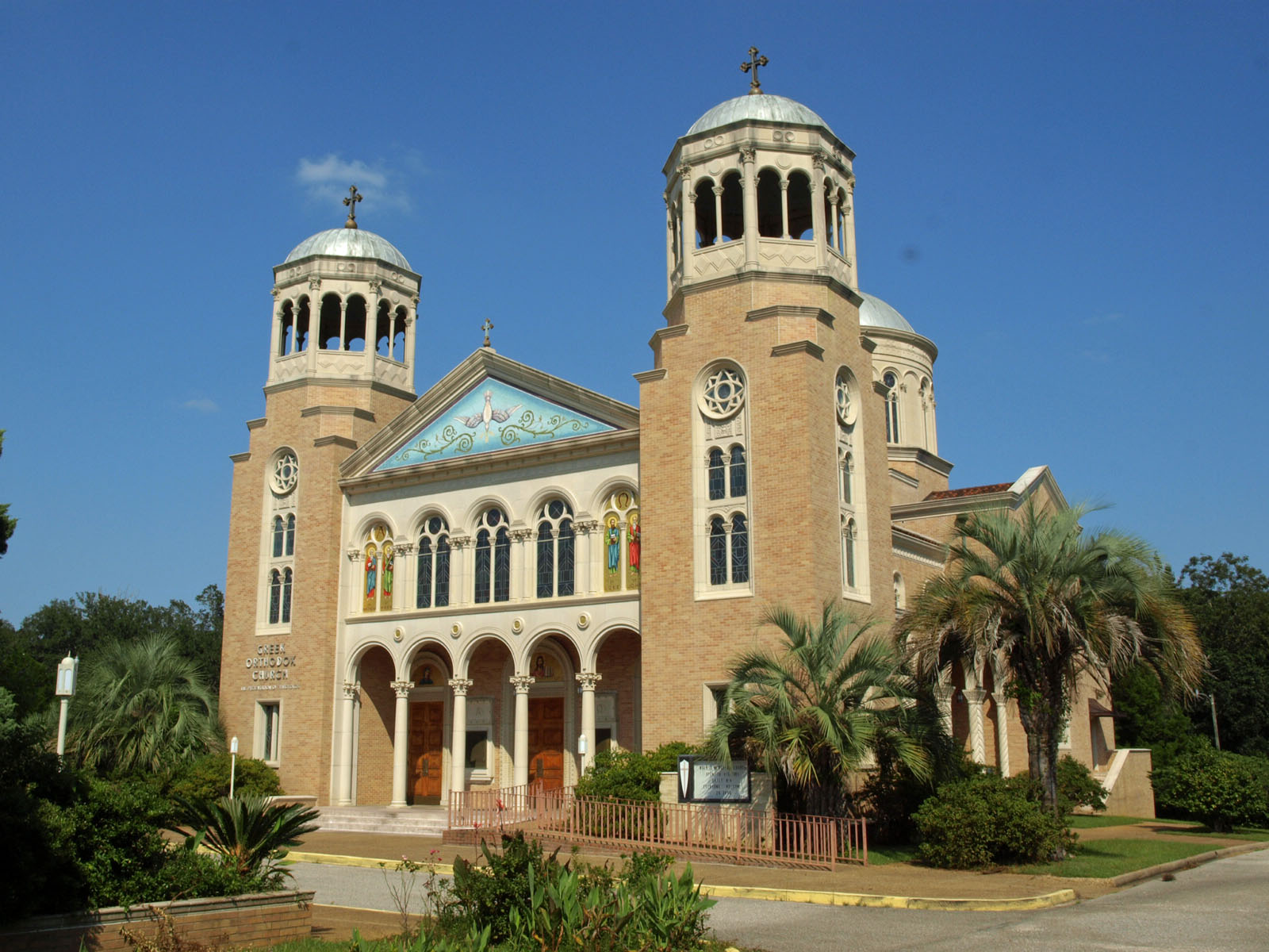 Malbis Memorial Church in Malbis, Alabama, The church is listed on the Alabama Register of Landmarks and Heritage, the entire community is listed on the NRHP.